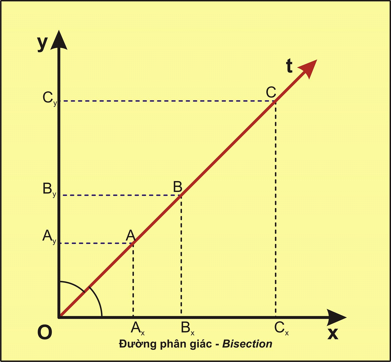 Bisection of an angle